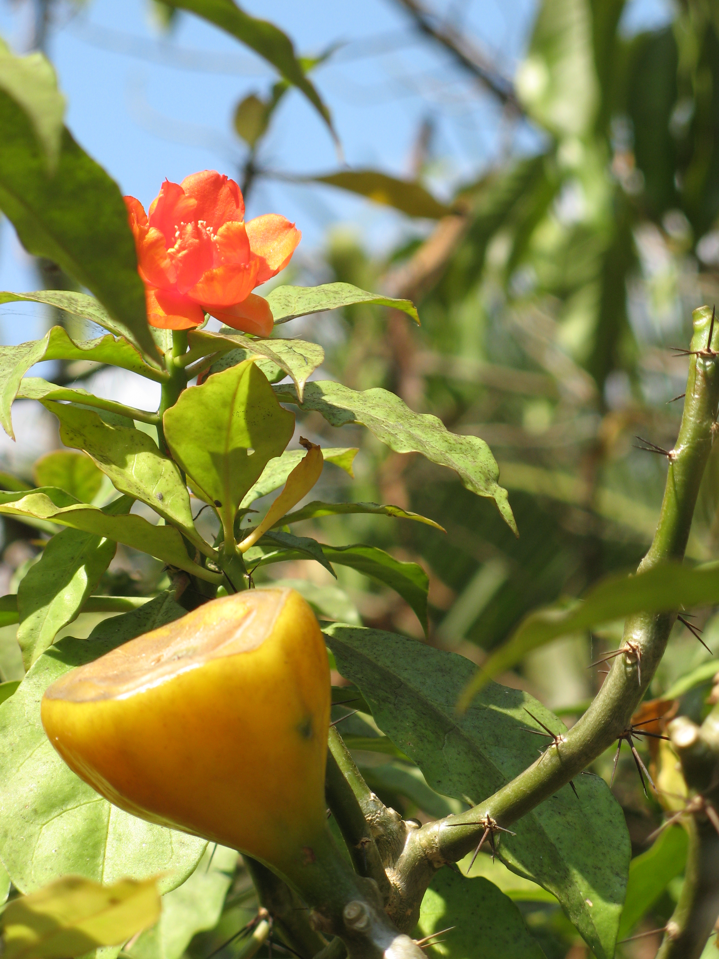 Pereskia bleo fruit